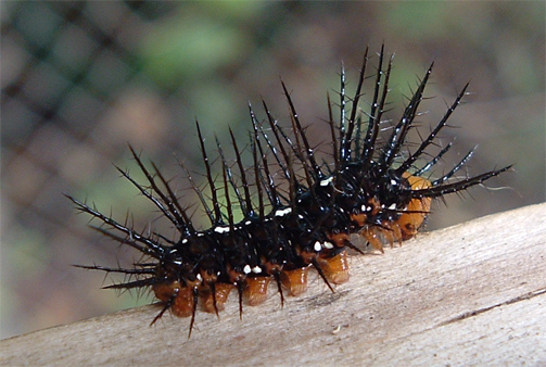 A Julia Butterfly Dryas julia caterpillar. And he has a name, it's Sir Spiney.